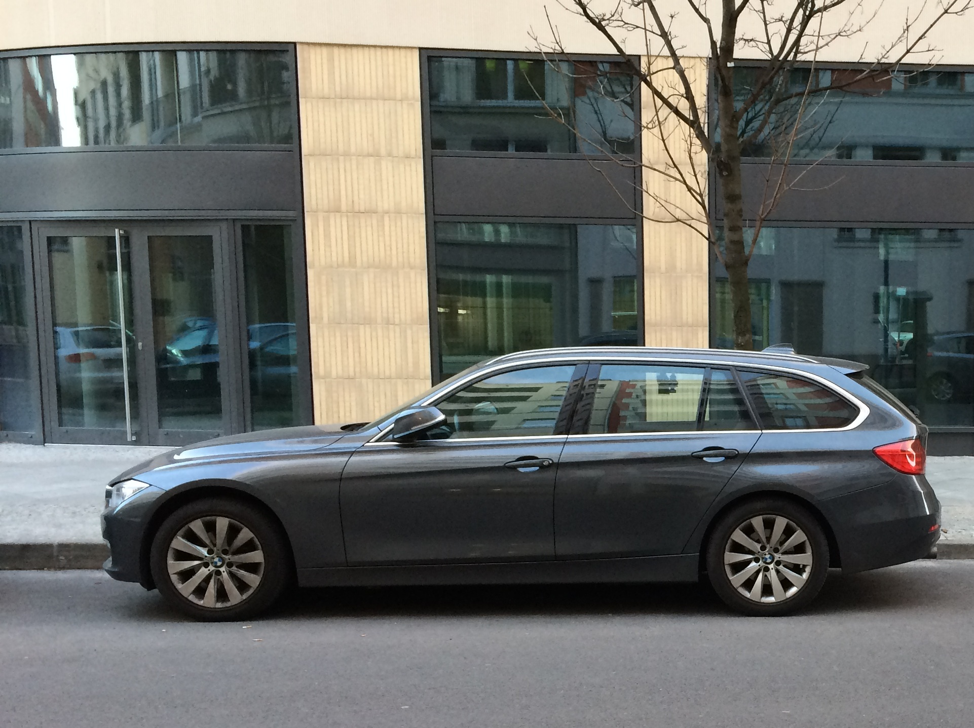 BMW Touring in Berlin